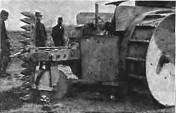 Breton-Pretot machine detail